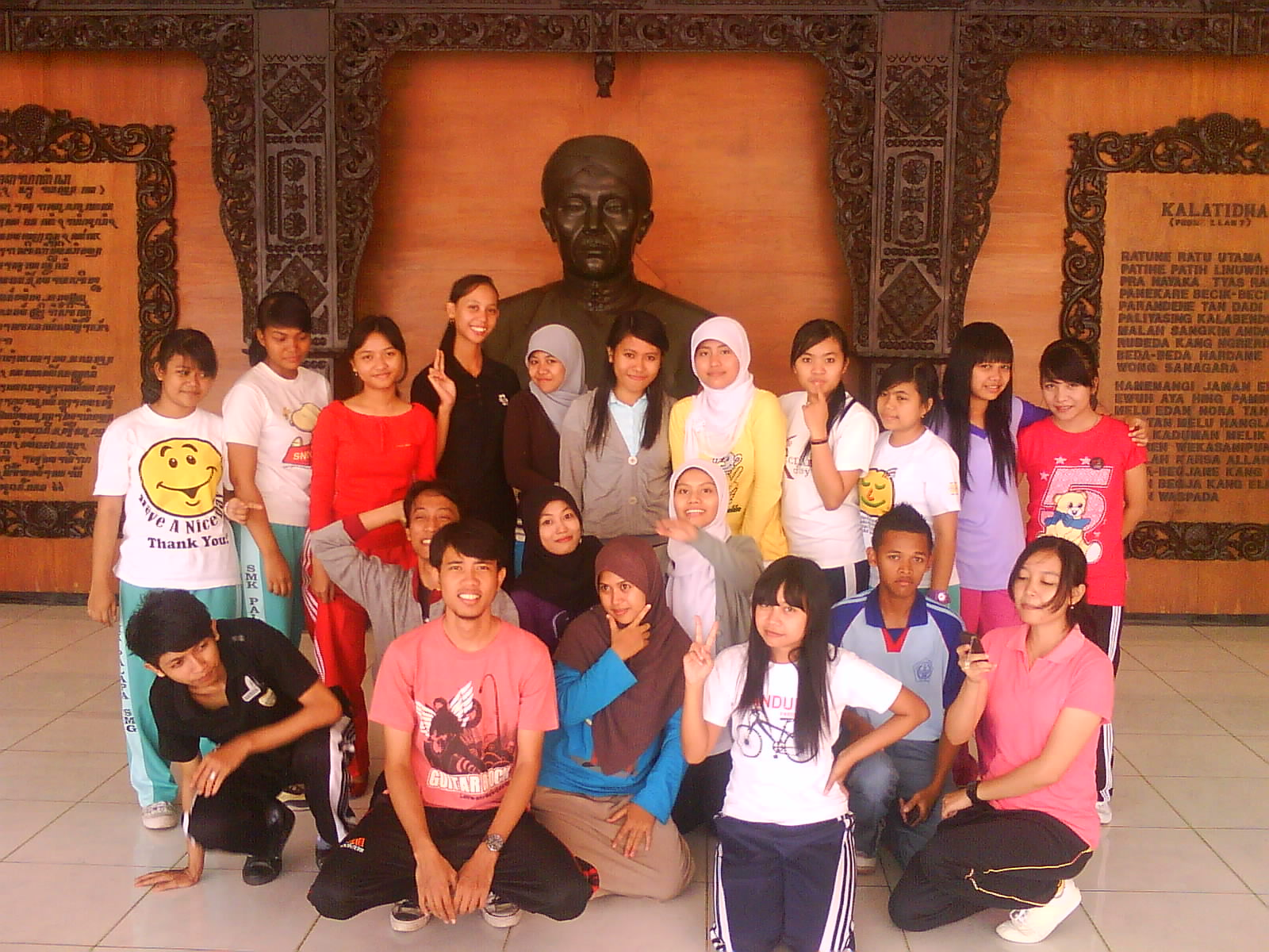 My picture